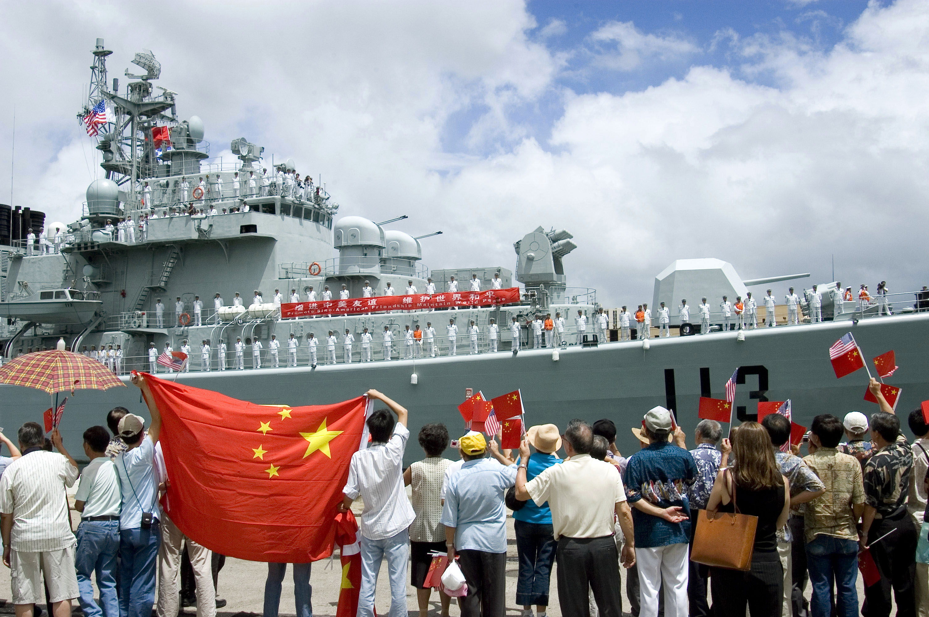 Pearl Harbor, Hawaii (Sept. 06, 2006) - Local spectators wave aloha to the Chinese Navy destroyer Qingdao (DDG 113) while mooring at the pier in Pearl Harbor. Two ships representing China’s Navy, the destroyer Qingdao (DDG 113) and the oiler Hongzehu (AOR 881) arrived in Pearl Harbor for a routine port visit. During their visit, China’s sailors will have the opportunity to interact with their U.S. counterparts and experience the unique culture of Hawaii. U.S. Navy photo by Mass Communication Specialist 3rd Class Ben A. Gonzales (RELEASED)